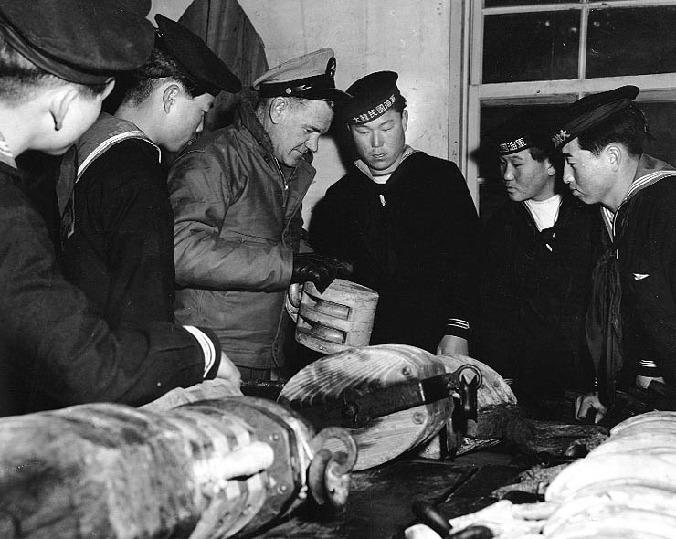 Photo #: NH 97150 "Republic of Korea Navy Service Schools" "Chief Boatswain's mate Joe E. Brewer, USN, ... shows these interested looking ROK sailors the workings of block and tackle -- all part of seamanship." "Chief Brewer is the Advisor at the Boatswain's mate school." Photograph and caption were released by Commander Naval Forces, Far East, under date of 27 February 1952. The sailors' cap ribbons read (in translation): "Republic of Korea Navy". The two bands in right-center read from left to right. That at far right reads from right to left. Official U.S. Navy Photograph, from the "All Hands" collection at the Naval Historical Center.